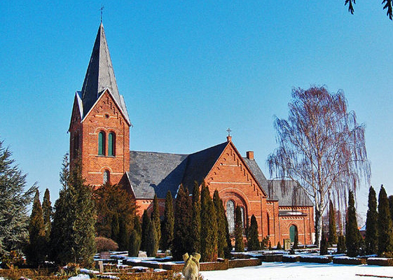 Bandholm Church, Lolland. Derivative file without caption.